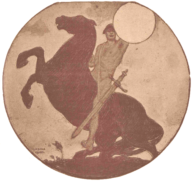 Magazine cover art depicting Luceafărul ("The Evening Star") as a young man holding up a ball of light.